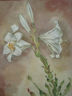 Flowers, Marianne Schneegans